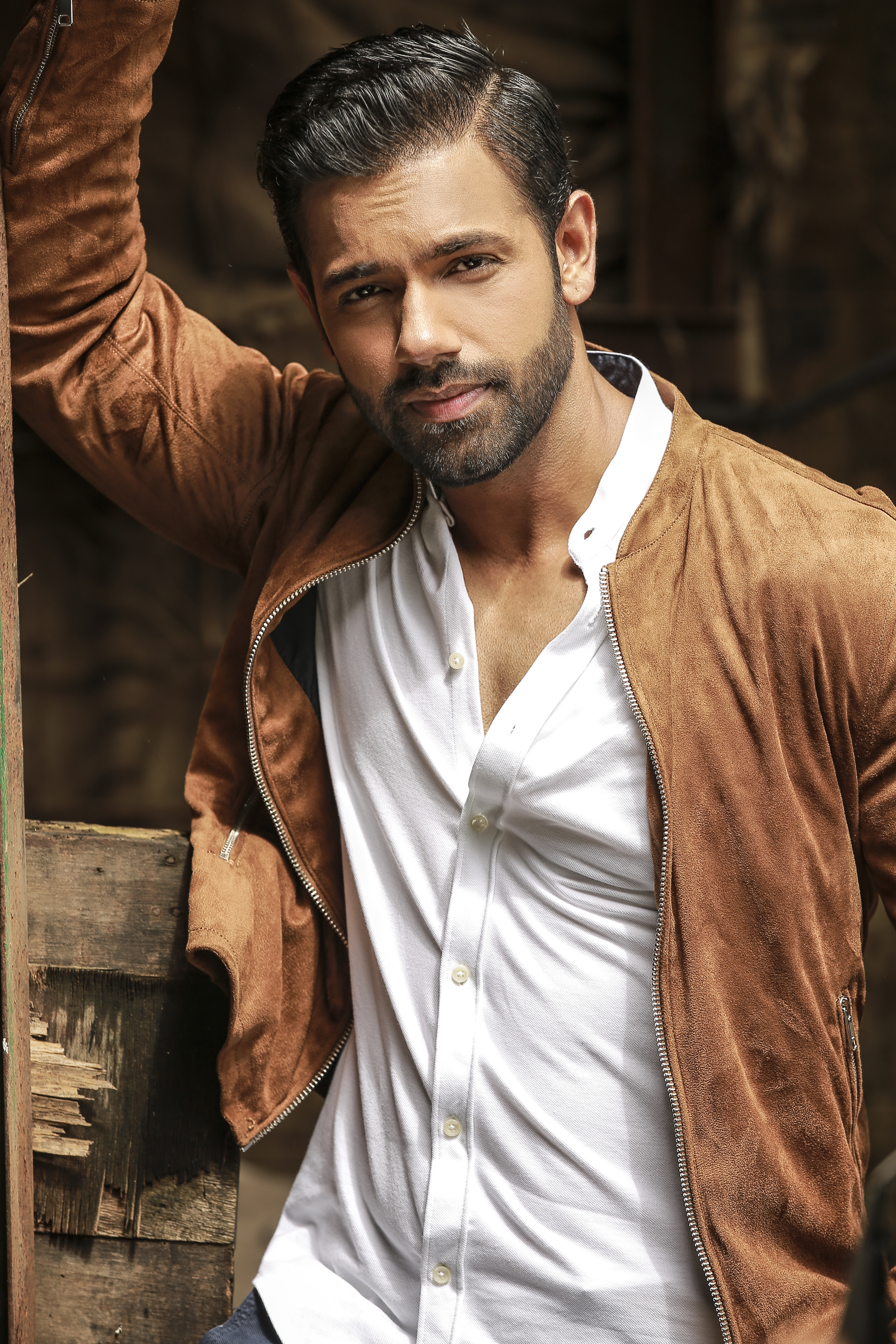 This is the updated photo of actor Saurabh Pandey. Shot in August 2018.